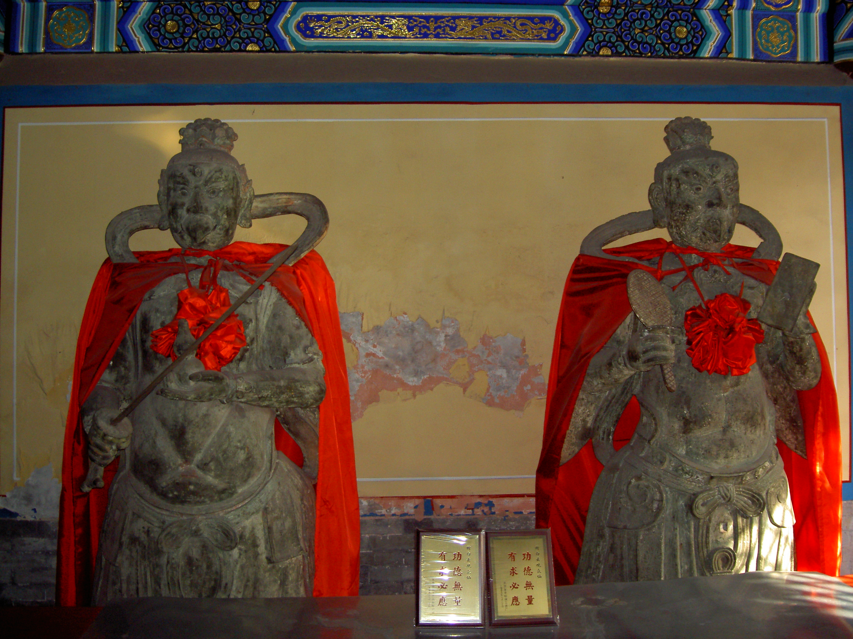 The White Cloud Temple in Beijing